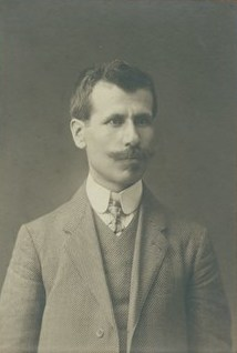 Bulgarian composer Mihail Kochev